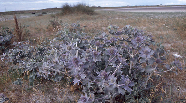 Sea holly at Termoncarragh on the Mullet Peninsula. Eryngium maritimum.